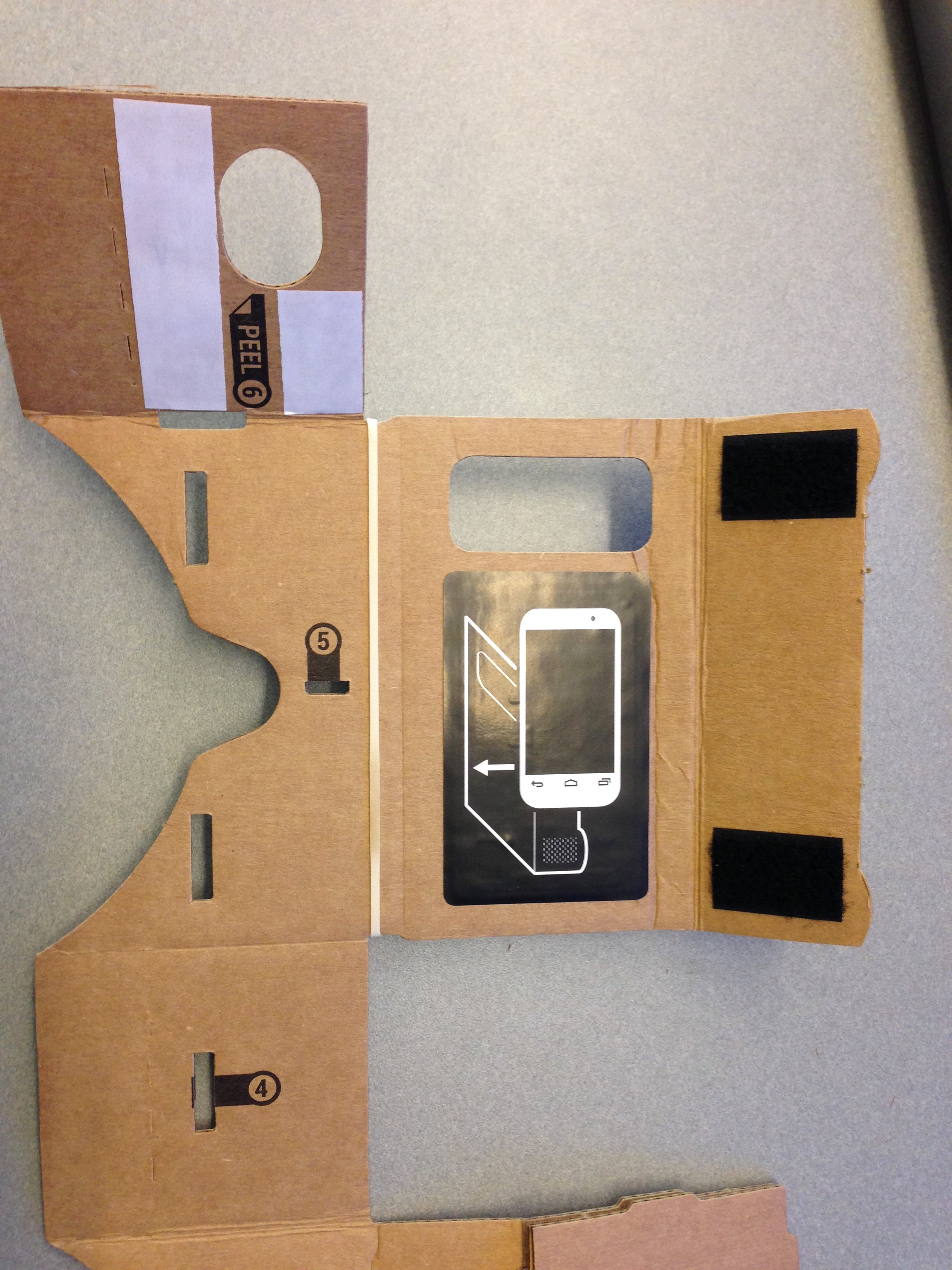 Unpacking Google Cardboard from its original folded-up package.